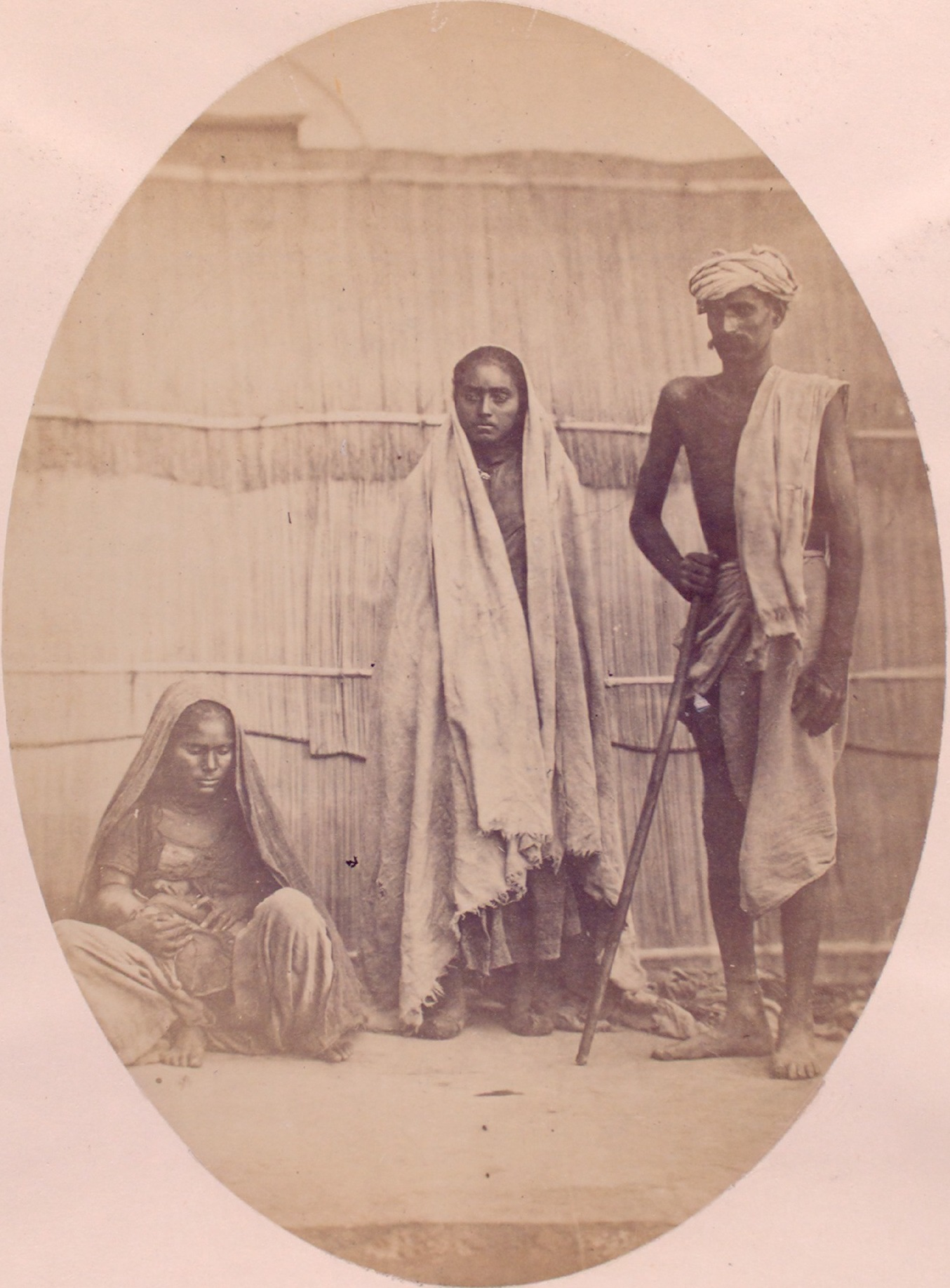 Letterpress label measures 40 x 85 mm.